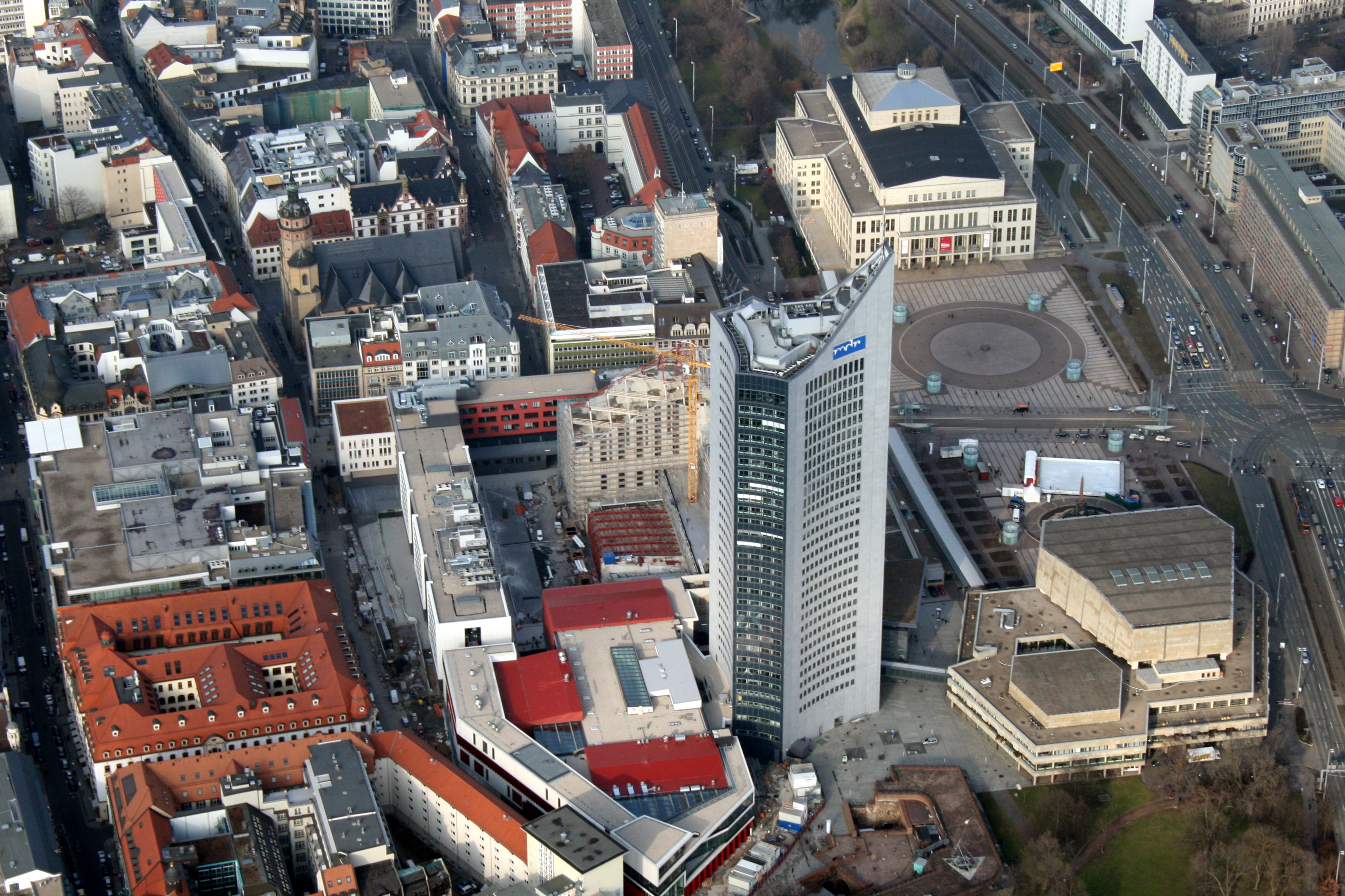 City-Hochhaus Leipzig at Augustusplatz, aerial view